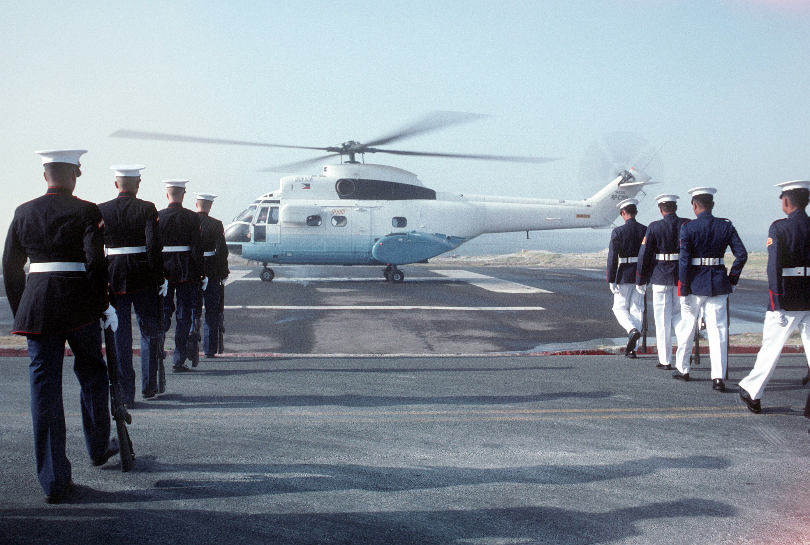 NAVAL STATION, SUBIC BAY, LUZON PHILIPPINES (PHL) - A joint U.S.-Philippine Marine honor guard marches in formation as an SA-330 Puma helicopter transporting Philippine President Corazon Aquino arrives on base. ID: DN-ST-92-05580